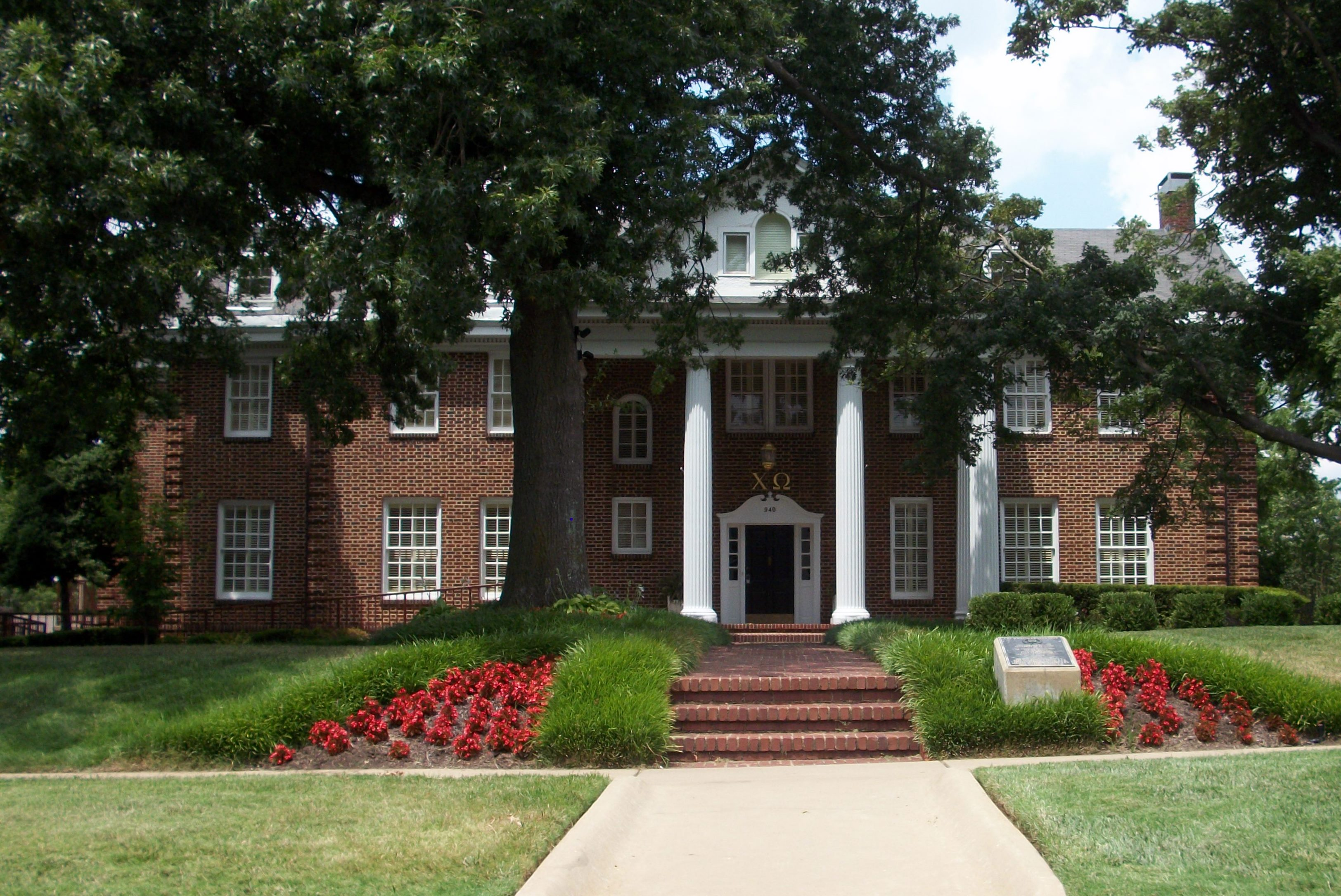 Chi Omega Chapter House at the University of Arkansas. This is where the women's fraternity was founded. Listed on the National Register of Historic Places.